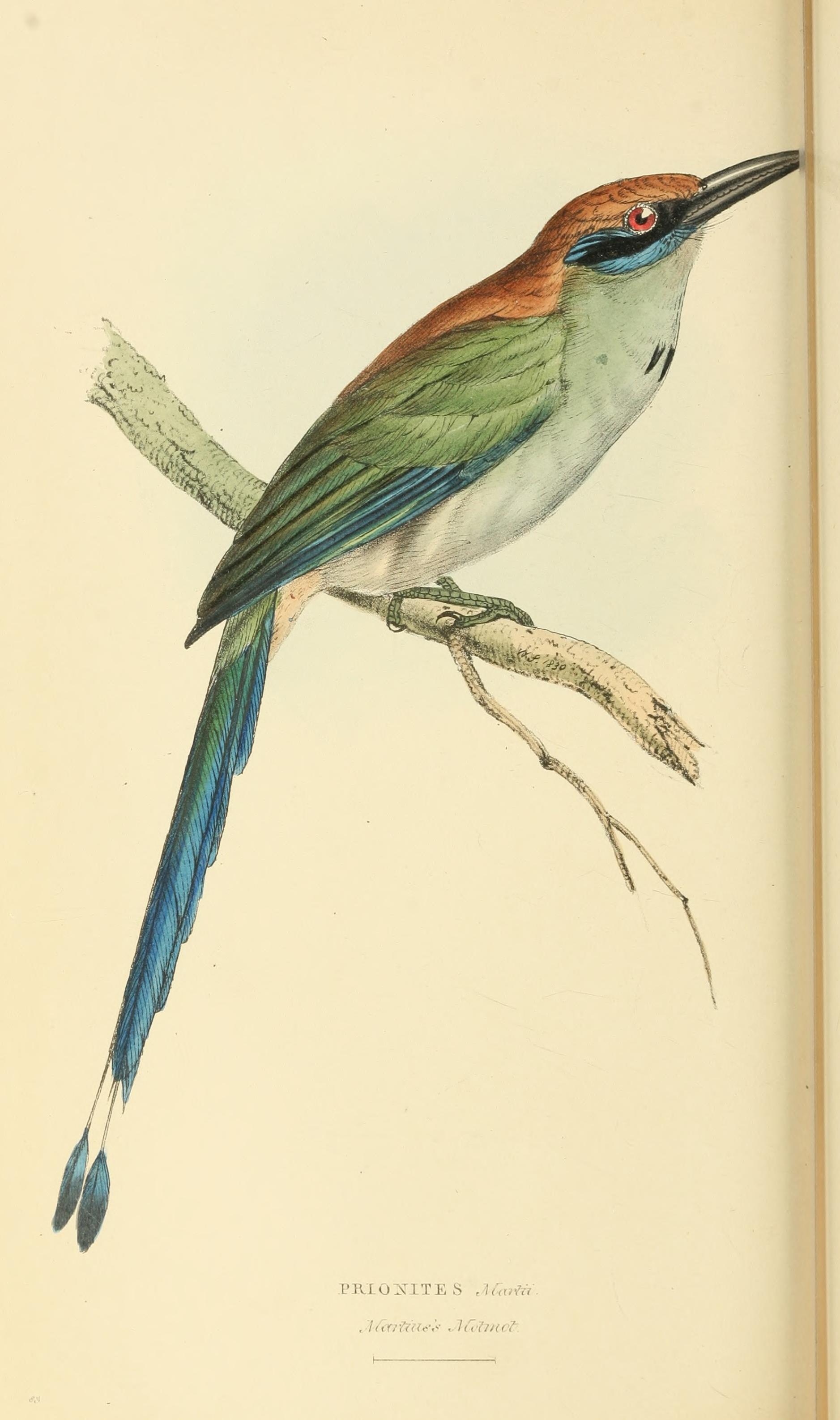 Plate from Zoological illustrations, Volume 2, 2nd series. Mexican Motmot. Prionites Mexicanus Sw. The inscription on the plate, Prionites Martii Martius's Motmot is dismissed in Swainson's text. Accepted as Momotus mexicanus[1]